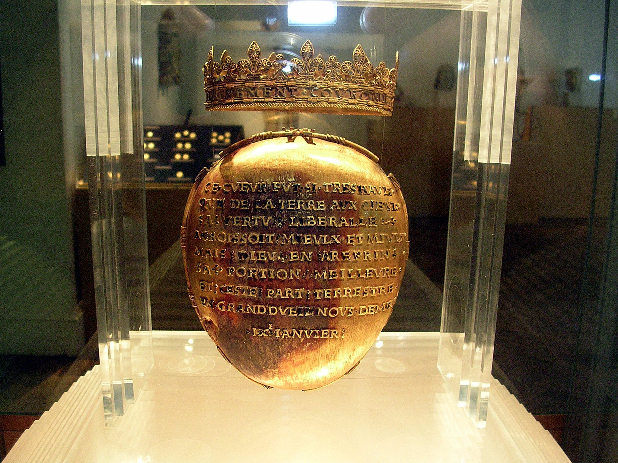 Gold reliquary of Anne of Brittany's heart (Dobrée Museum, Nantes, France).